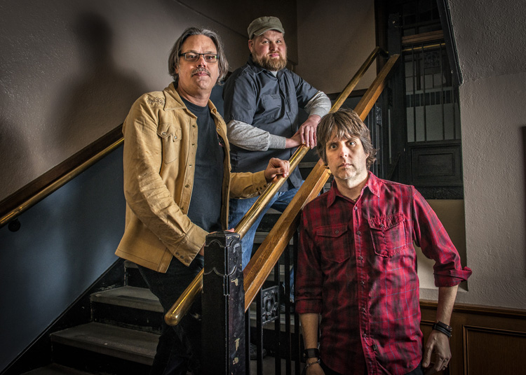 Promotional photo of the Detroit rock and roll band Jeremy Porter & The Tucos taken by Doug Coombe in Ann Arbor in March, 2015 in advance of the release of their second album Above The Sweet Tea Line.